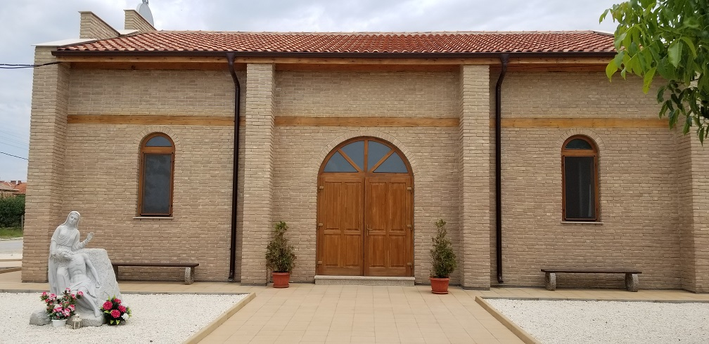 St. Joseph Chapel in Rakovski